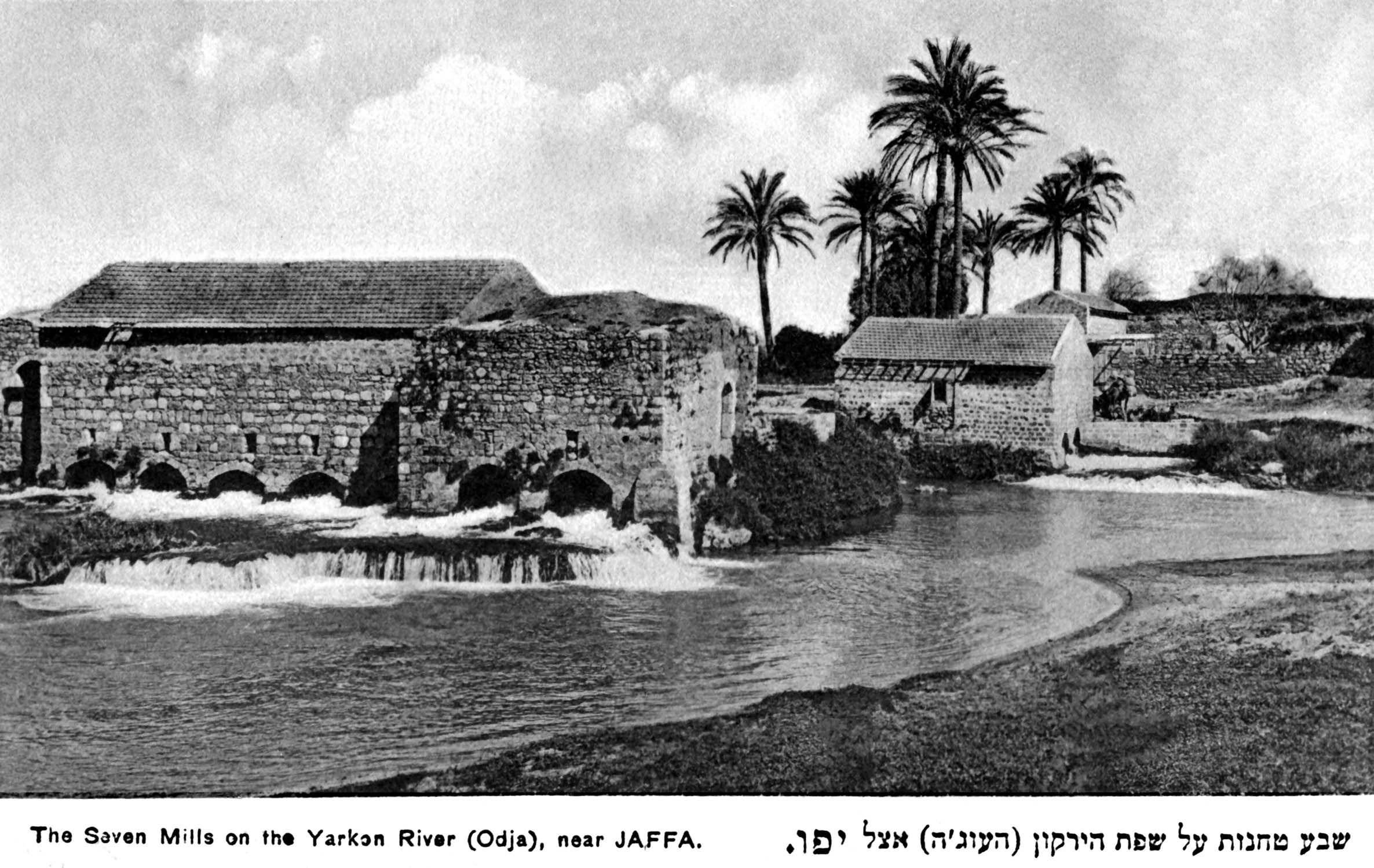 Architecture of Israel